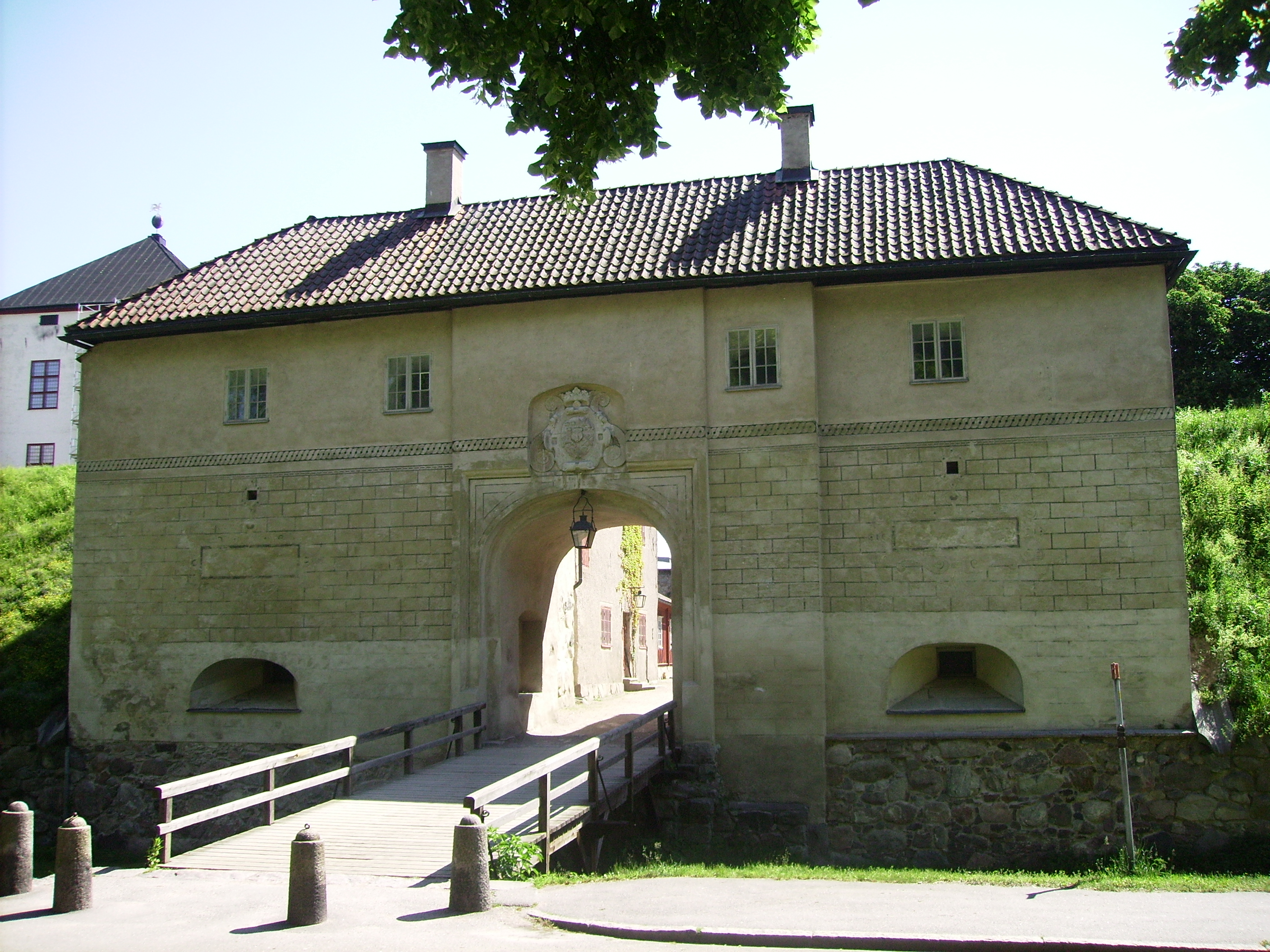 Picture of Nyköpingshus